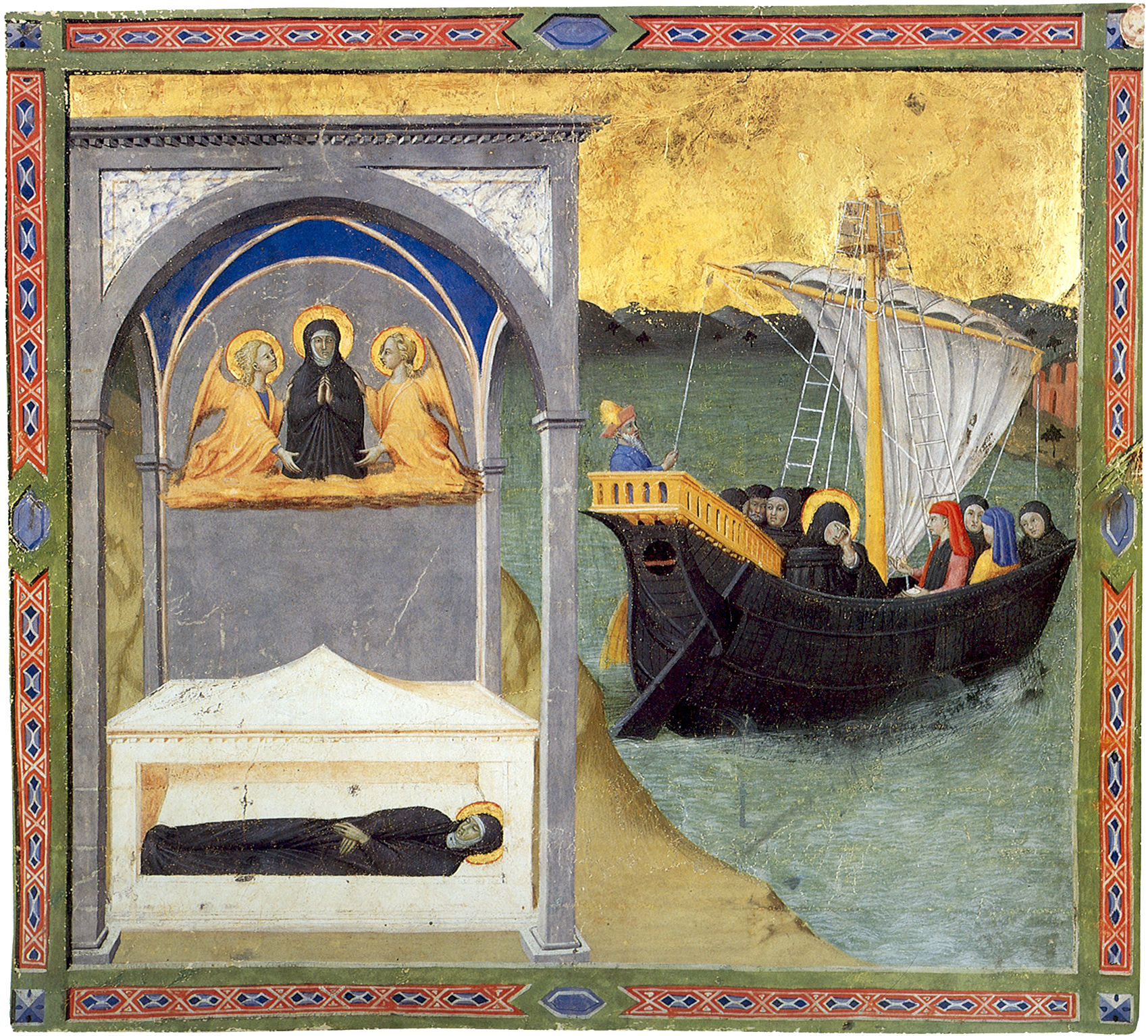 Burial of Saint Monica and Saint Augustine Departing from Africa